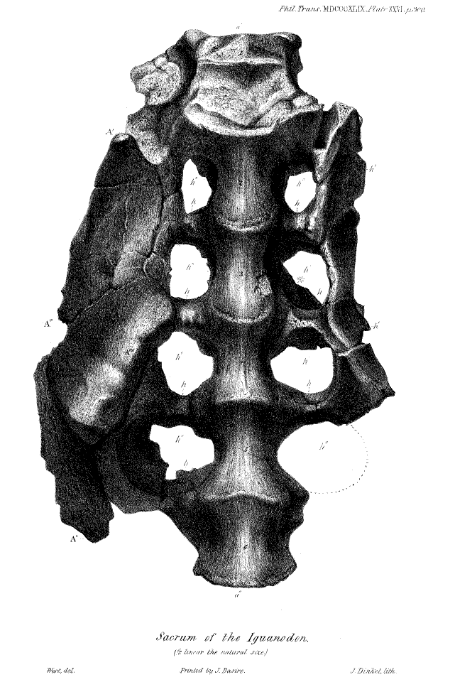 Engraving of the fossil sacrum of an Iguanadon, from Additional Observations on the Osteology of the Iguanodon and Hylaeosaurus, Gideon Algernon Mantell and A. G. Melville, Philosophical Transactions of the Royal Society of London Vol. 139, 1849.